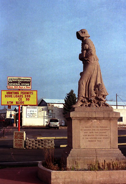 photo by Einar Einarsson Kvaran, aka Carptrash 23:45, 23 May 2006 (UTC) the Madonna of the Trail in Springerville, AZ